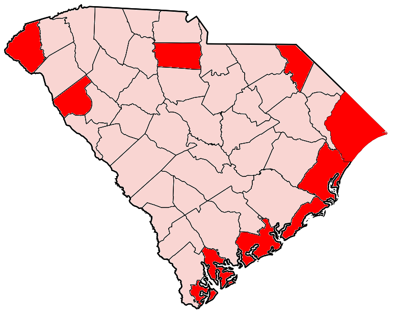 A map of the counties won by each candidate in the South Carolina Republican primary.